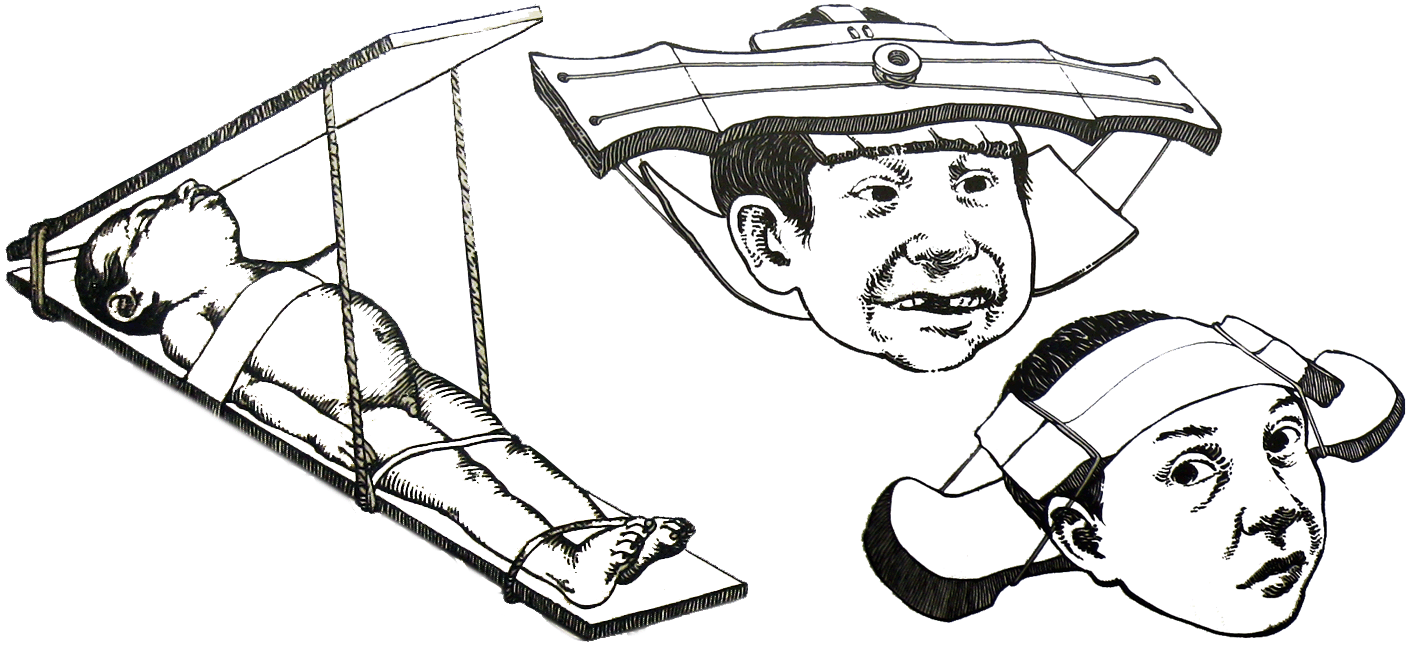 Three drawings of methods that were used by Maya peoples to shape a child's head.